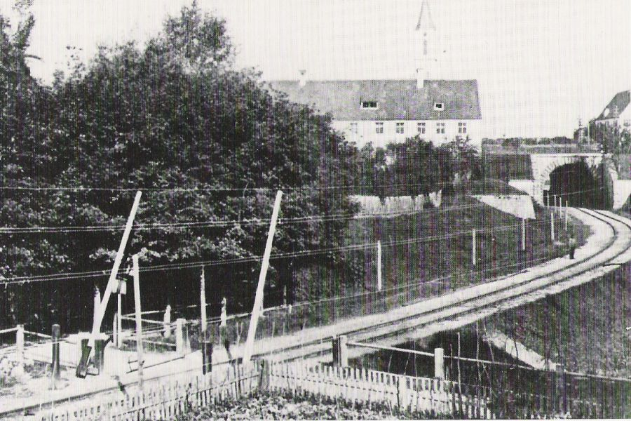 The photo shows the northwest entrance of historical railway tunnel in Donauwörth. Until 1877 trains ran this way to the former station of Donauwörth which was located on the other side of the tunnel. Today this 125 meter long tunnel is part of a walk and cycle way.